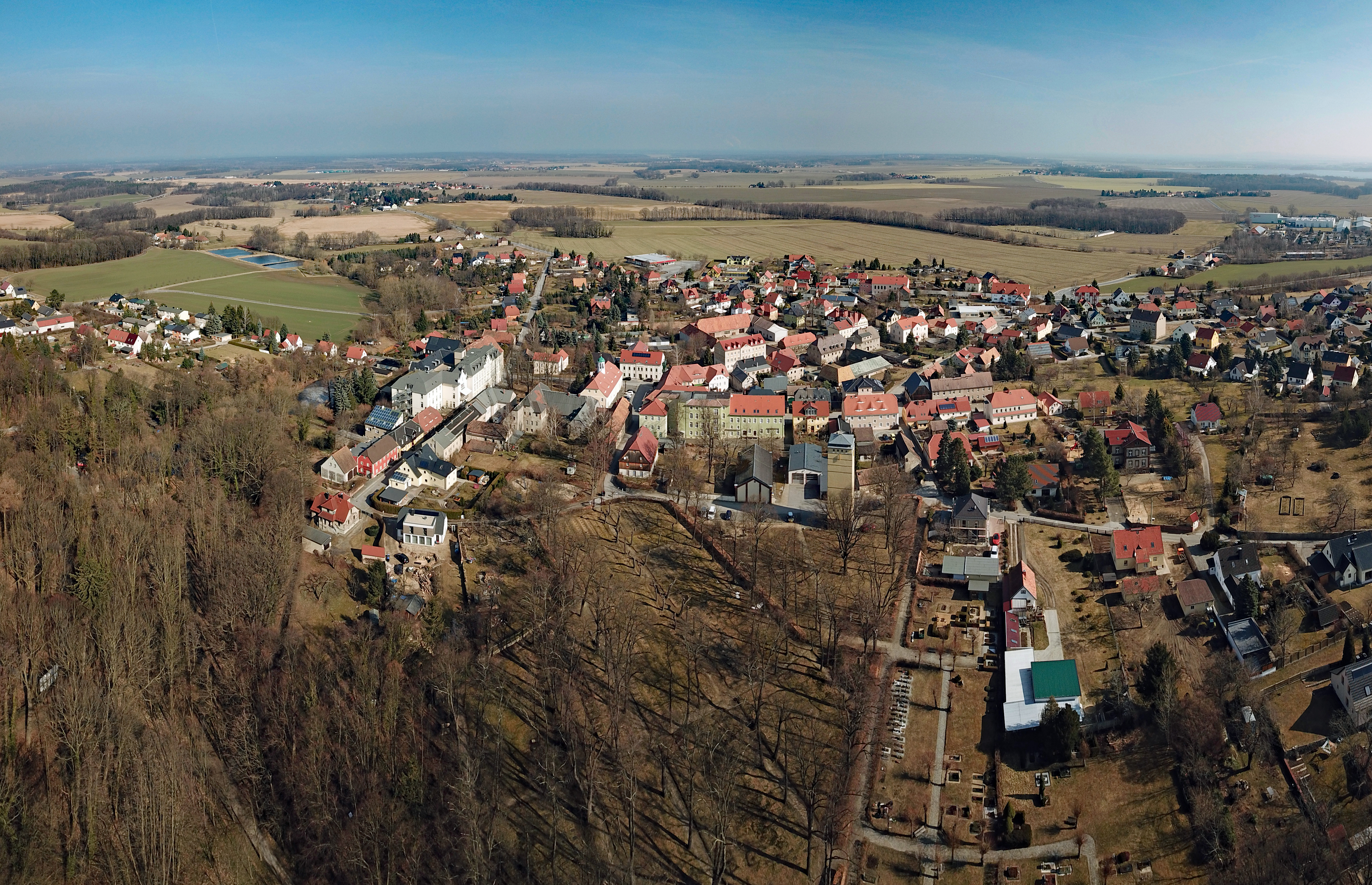 Kleinwelka (Bautzen, Saxony, Germany) Hornjoserbsce: Powětrowy wobraz Małeho Wjelkowa Dieses Foto wurde mit einem Quadcopter innerhalb der RMZ des Flugplatzes EDAB aufgenommen. Der Flugleiter wurde am Aufnahmetag telephonisch über Ort und Zeit informiert und hat zugestimmt. Der Flug erfolgte auf Grundlage der Allgemeinverfügung der Landesdirektion Sachsen zur Erteilung der Betriebserlaubnis für unbemannte Luftfahrtsysteme und Flugmodelle gemäß § 21a LuftVO und Zulassung von Ausnahmen von Betriebsverboten gemäß § 21b LuftVO für den Freistaat Sachsen.